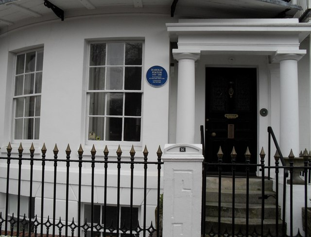 Raised ground floor of 14 Ambrose Place, Worthing, West Sussex, seen from the south. In 1962–64 this was the home of playwright Harold Pinter and actress Viven Merchant. Pinter wrote The Homecoming here.